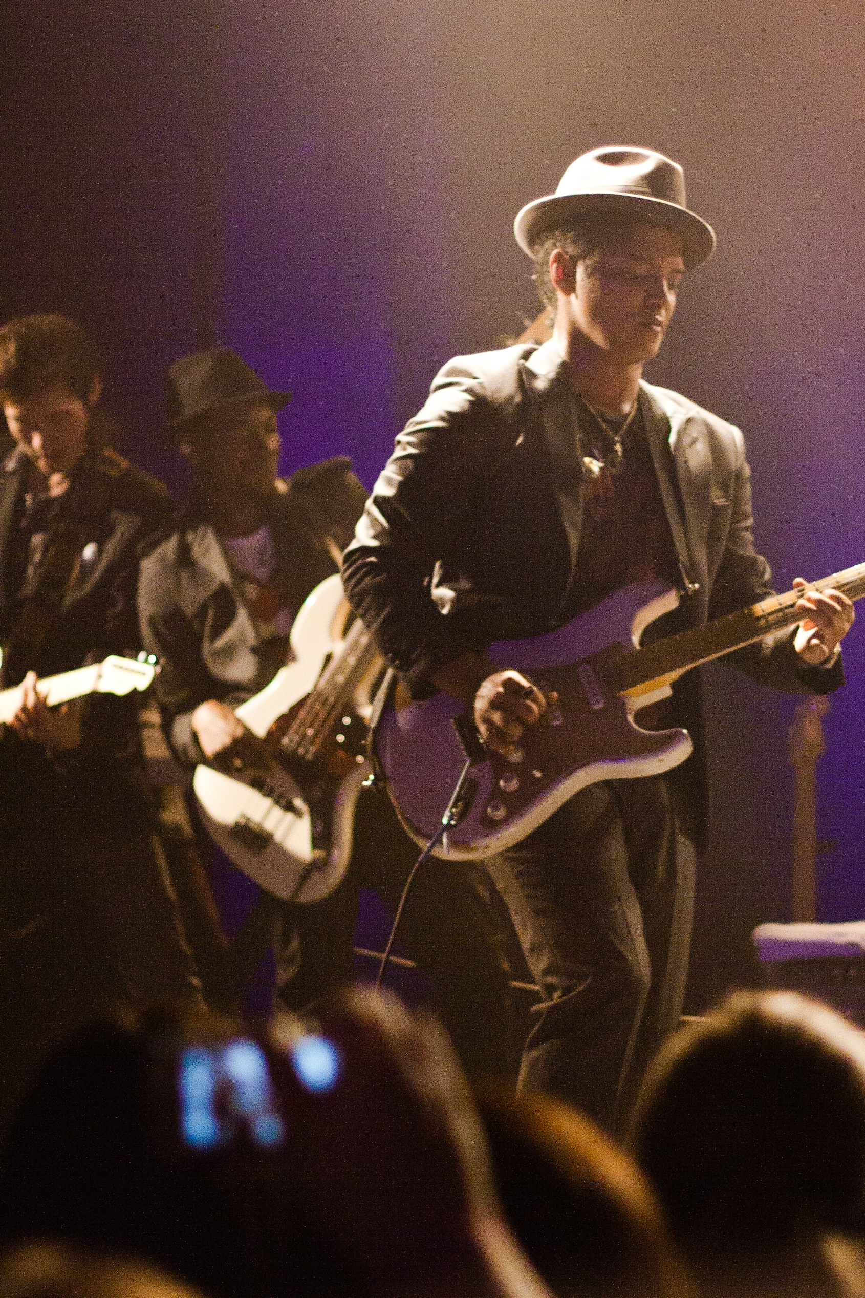 Warehouse Live